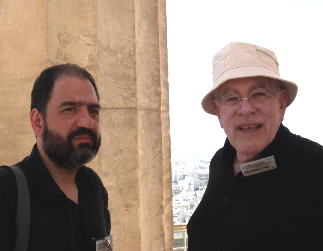 Panayotis Pangalos & Peter Eisenman in Greece